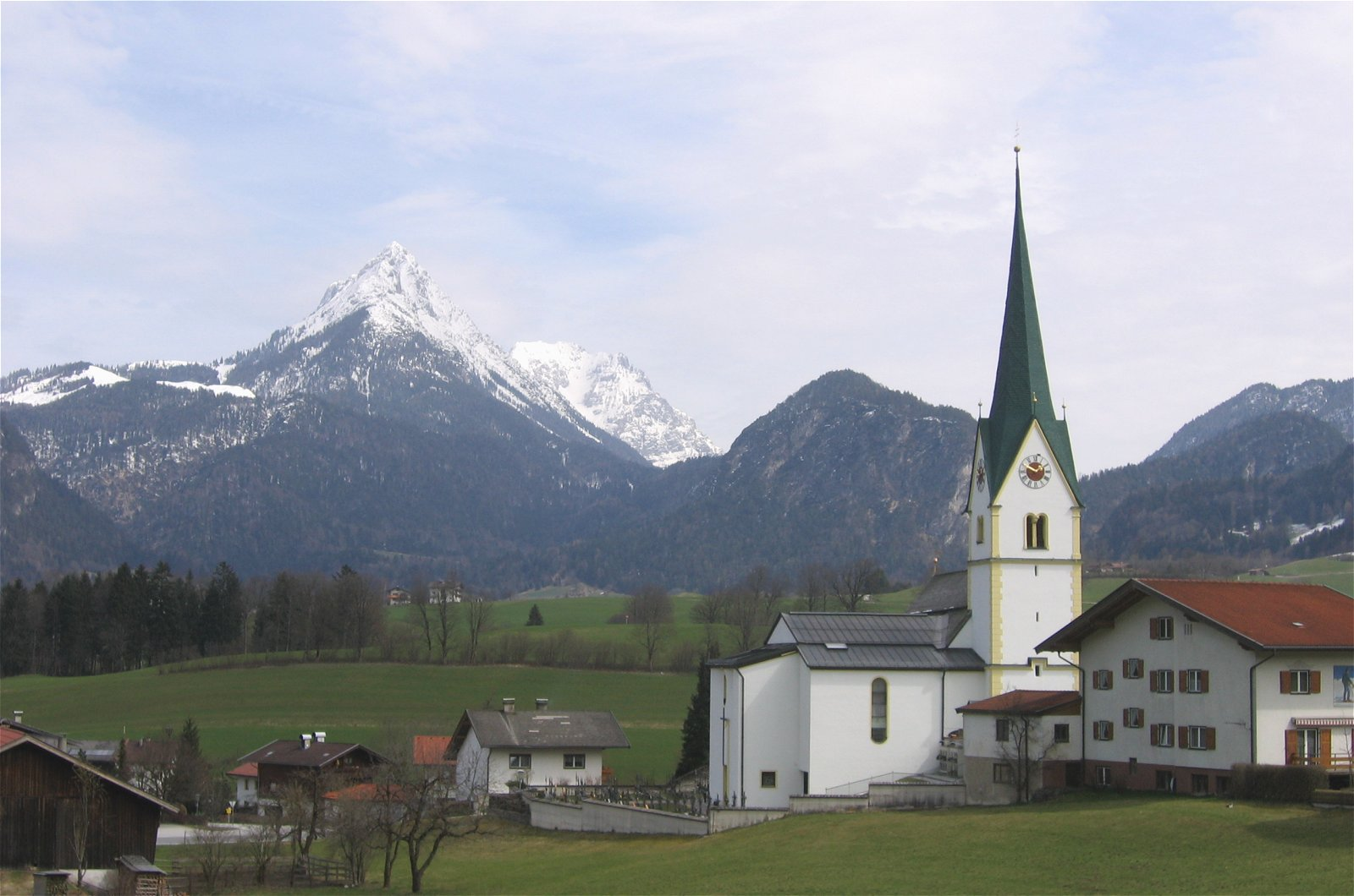 Schwoich, St Giles' Parish Church with the Scheffauer in background.